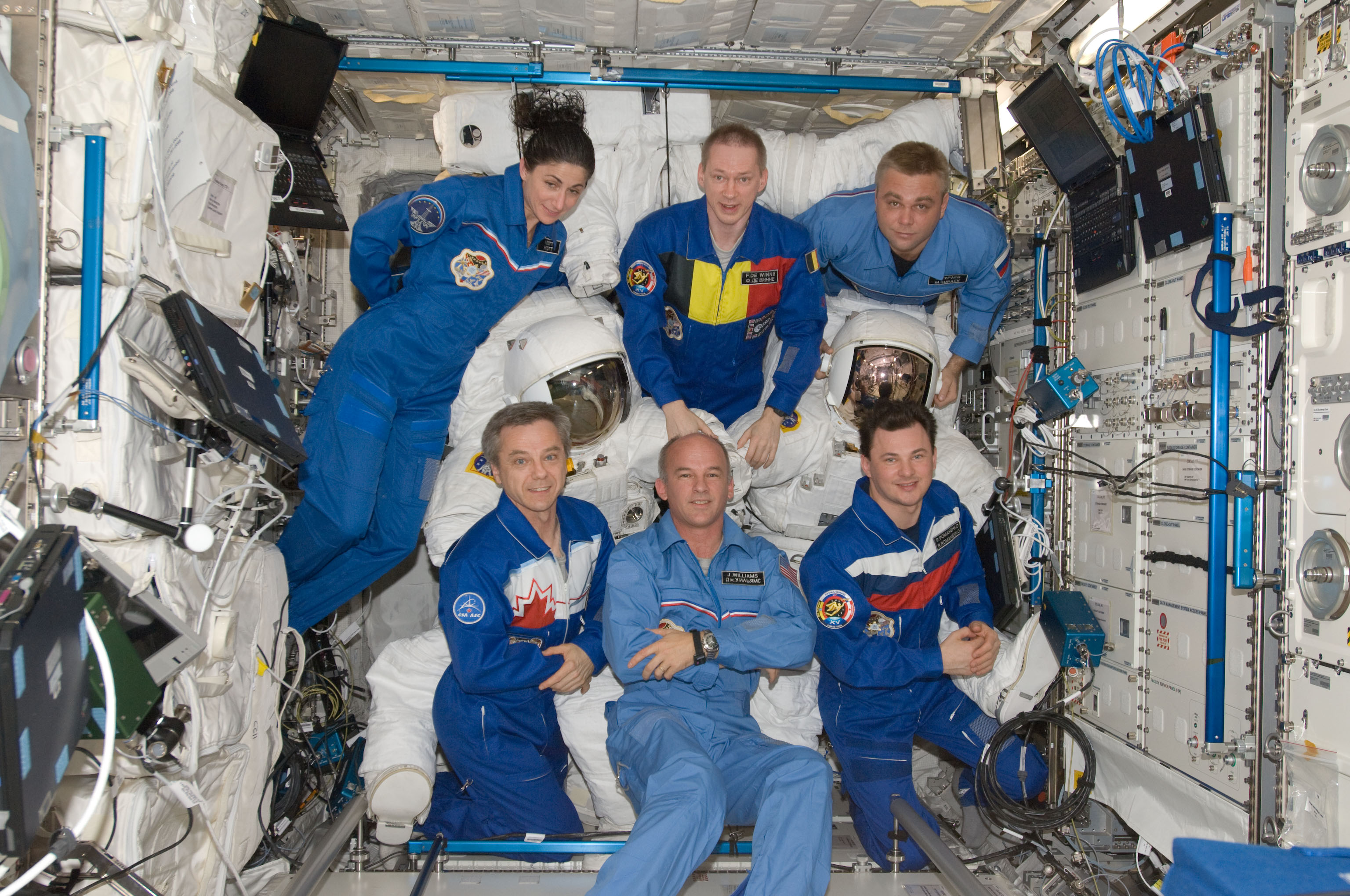 Expedition 21 crew members pose with three Extravehicular Mobility Unit (EMU) spacesuits in the Columbus laboratory of the International Space Station. From the left in the front row are Canadian Space Agency astronaut Robert Thirsk, NASA astronaut Jeffrey Williams and Russian cosmonaut Roman Romanenko, all flight engineers. Pictured on the back row are European Space Agency astronaut Frank De Winne (center), commander; along with NASA astronaut Nicole Stott and Maksim Surayev, both flight engineers.